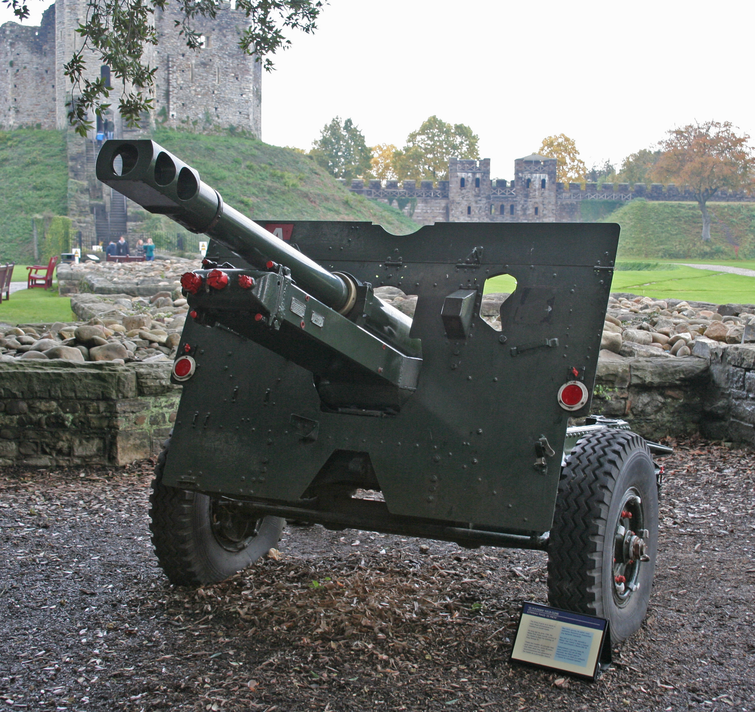 An example the British 25 pounder field gun. The 25pounder was the main british field artillery during WWII